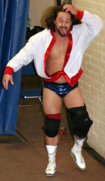 Eugene, cropped version of Image:Nick Dinsmore in Kitchener, Ontario, Canada.jpg, by static. (Original flickr location)